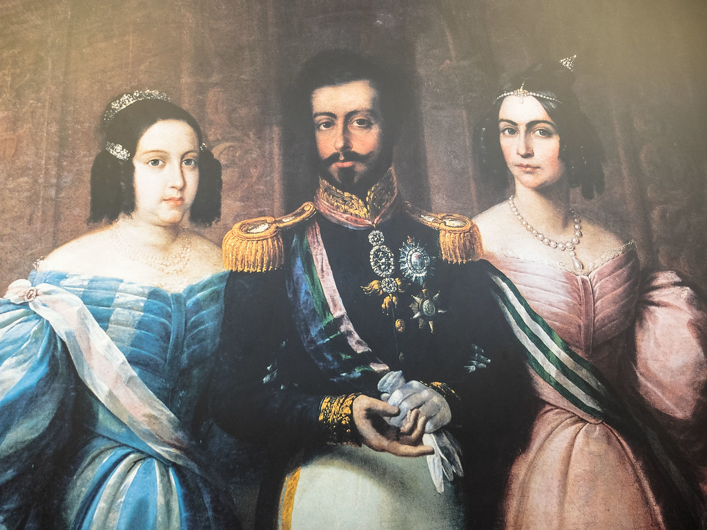 Emperor Pedro I of Brazil with his second wife (Empress Amélie) and eldest daughter (Queen Maria II of Portugal), just a few months before Pedro's death